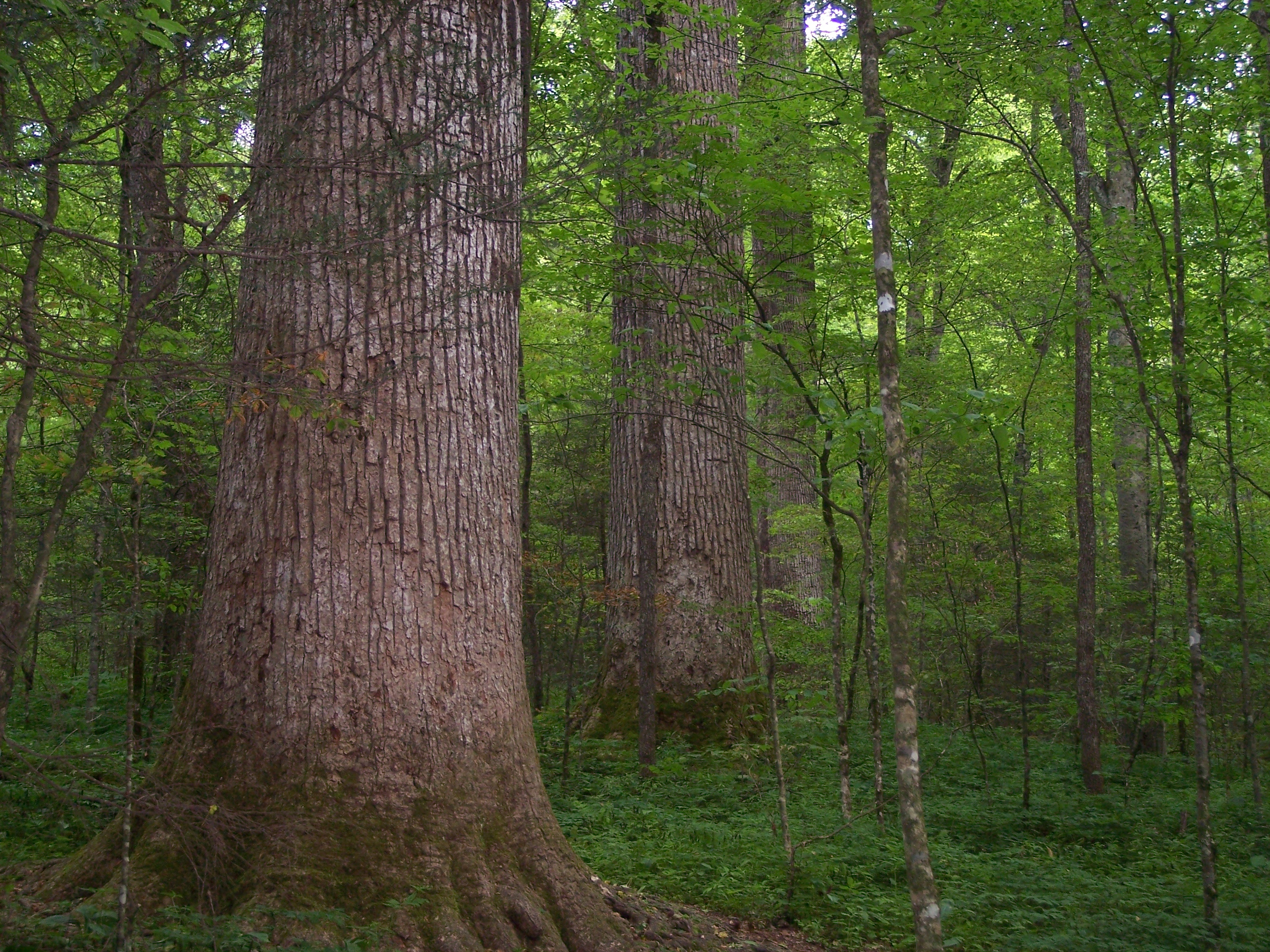 Anicient Tulip-tree Liriodendron tulipifera grove in Joyce Kilmer Memorial Forest.